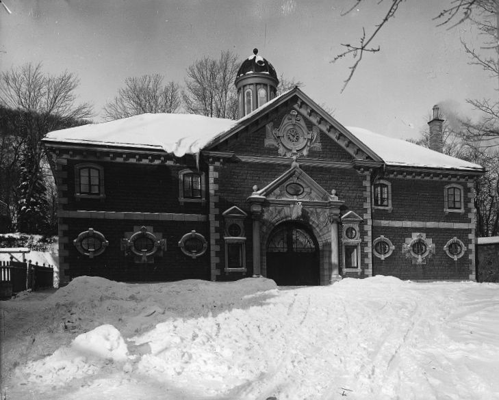 H. Montagu Allan's stables, "Ravenscrag", Montreal, QC, 1903; 1903, 20th century; Silver salts on glass - Gelatin dry plate process; 20 x 25 cm; Purchase from Associated Screen News Ltd.; © McCord Museum.